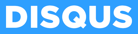 Official logo for Disqus, a blog comment hosting service for websites and online communities.